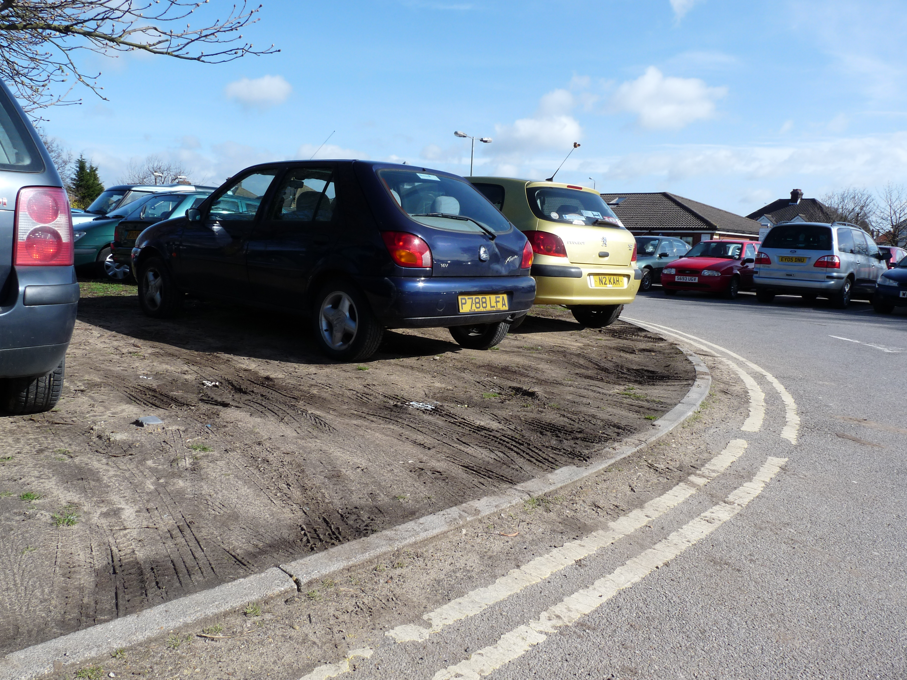 Overspill parking outside a Hospital turning the area to mud